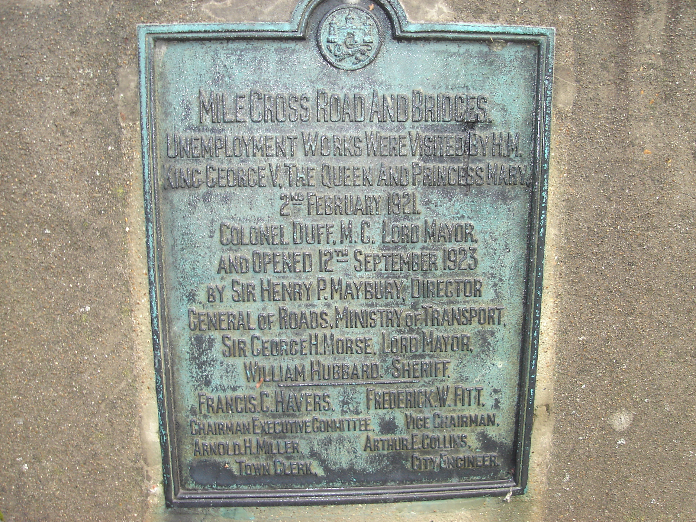 Photo of plaque to the south elevation of Mile Cross Bridge, Norwich. The bridge spans the River Wensum